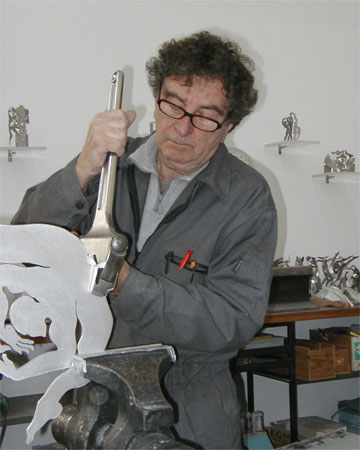 Yehiel Rabinowitz working on a sculpture